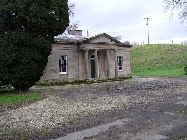 Gatehouse near Artikelly Looking north-east